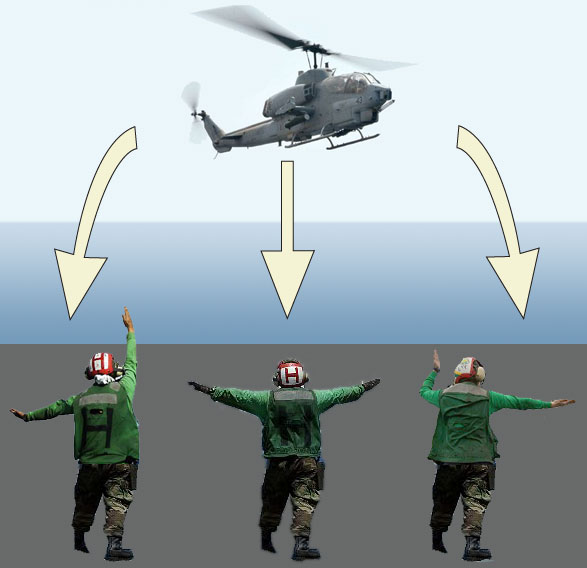 US navy helicopter landing signals illustration by Jeremy Kemp. This is a composite of four photographs released to the public domain by the US Navy. 040724-N-6380E-149 Teresa Ellison 050103-N-6074Y-197 Jeremie Yoder 050110-N-6817C-056 Tyler J. Clements 050120-N-4308O-004 Kristopher Wilson